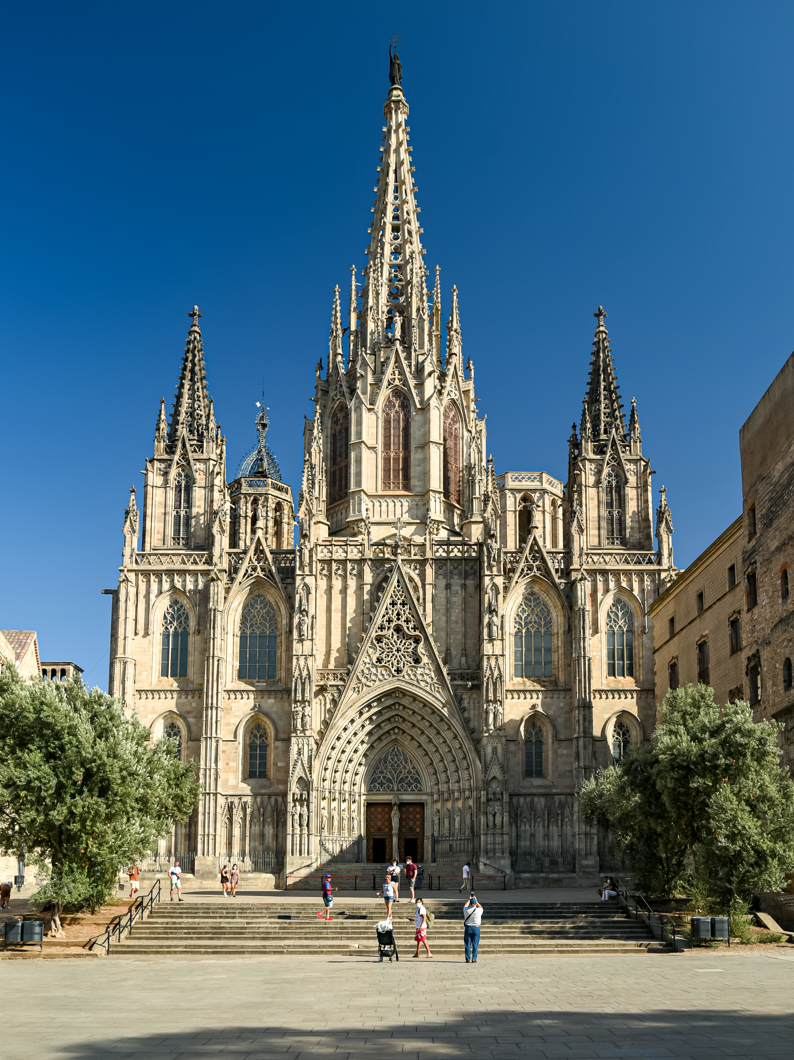 Santa Iglesia Catedral Basílica Metropolitana de la Santa Cruz y Santa Eulalia (Barcelona, Spain)